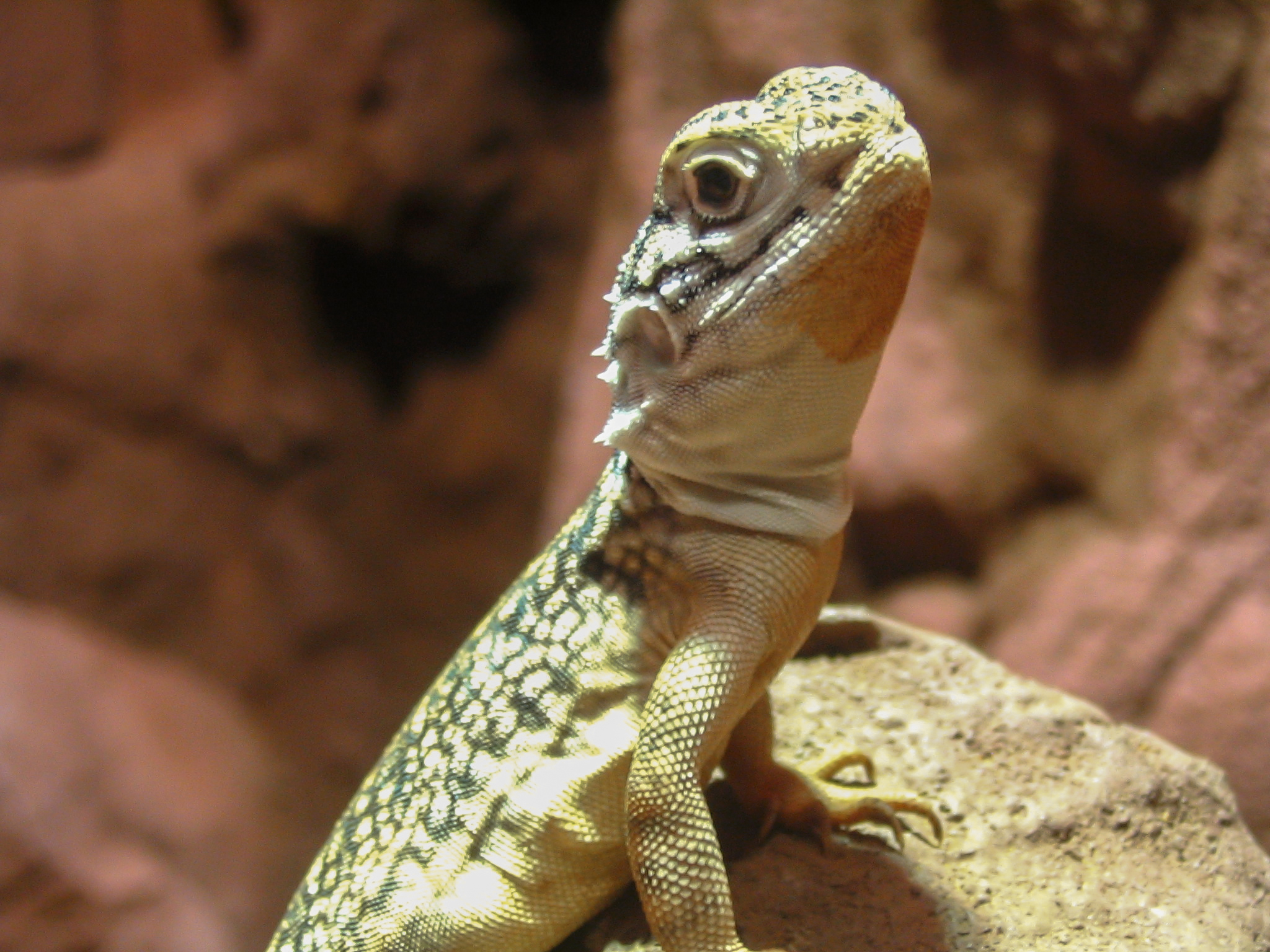 Headshot of a Central Netted Dragon (Ctenophorus nuchalis) at Sydney Wildlife World. Good DoF and composition but overexposed and a bit blurry.